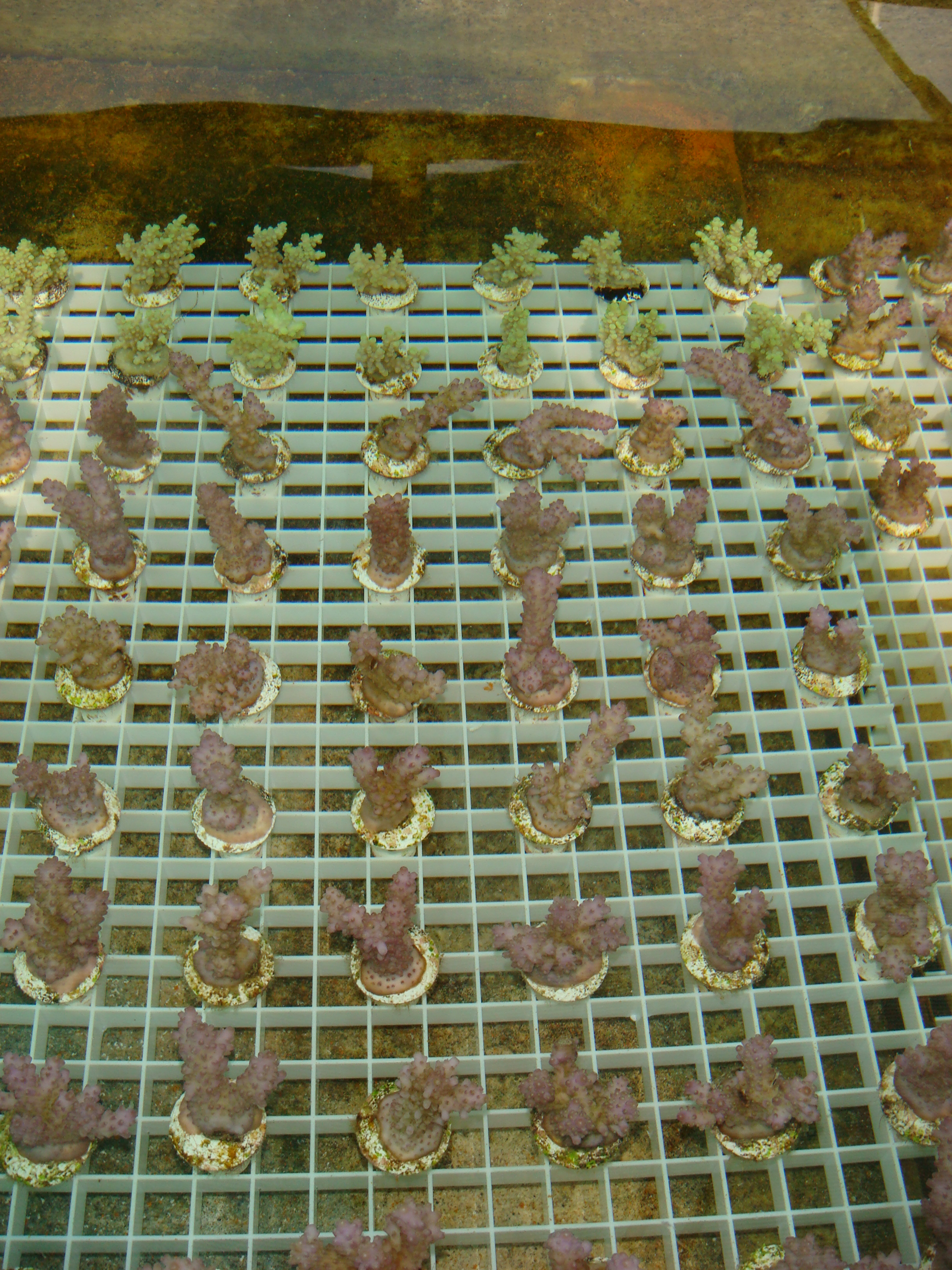 Further examples of coral Aquaculture. Photograph taken by Dustin Dorton, ORA: Ocean, Reefs & Aquariums